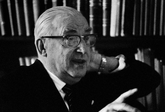 Photograph of the Finnish writer Yrjö Soini alias Agapetus (1896–1975).